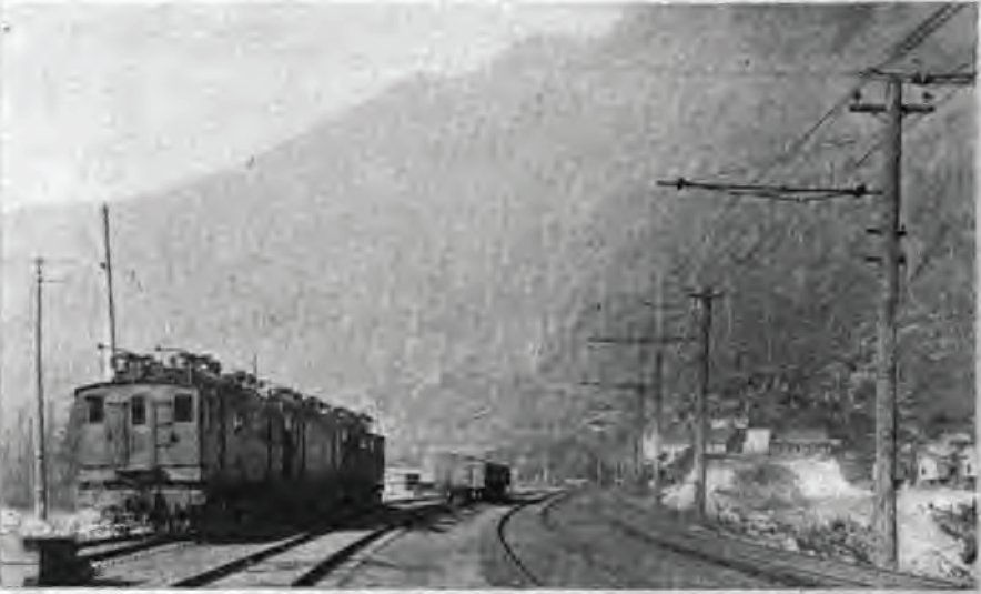 Photograph of the railroad at Wellington, Washington before the avalanche in March 1910 which took 96 lives.